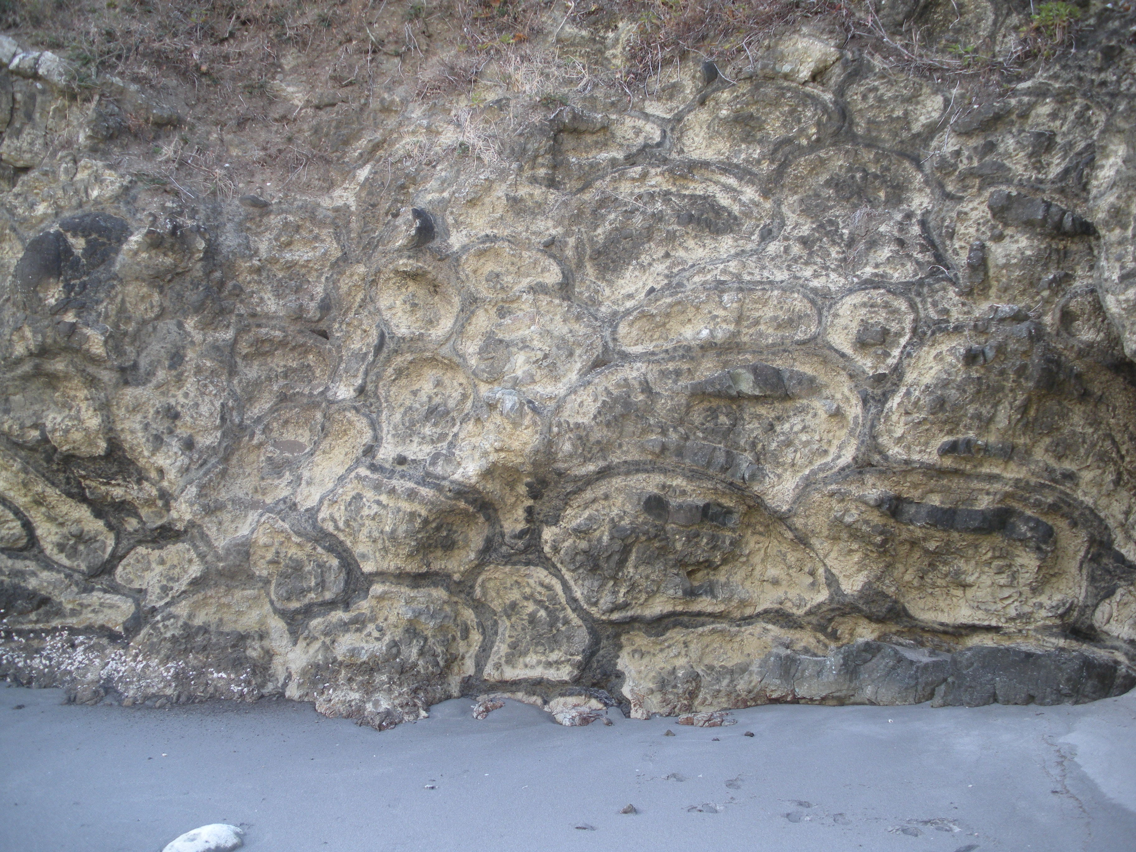 Pillow Lava in Bonin Islands Chichijima Island Coast-Cominato